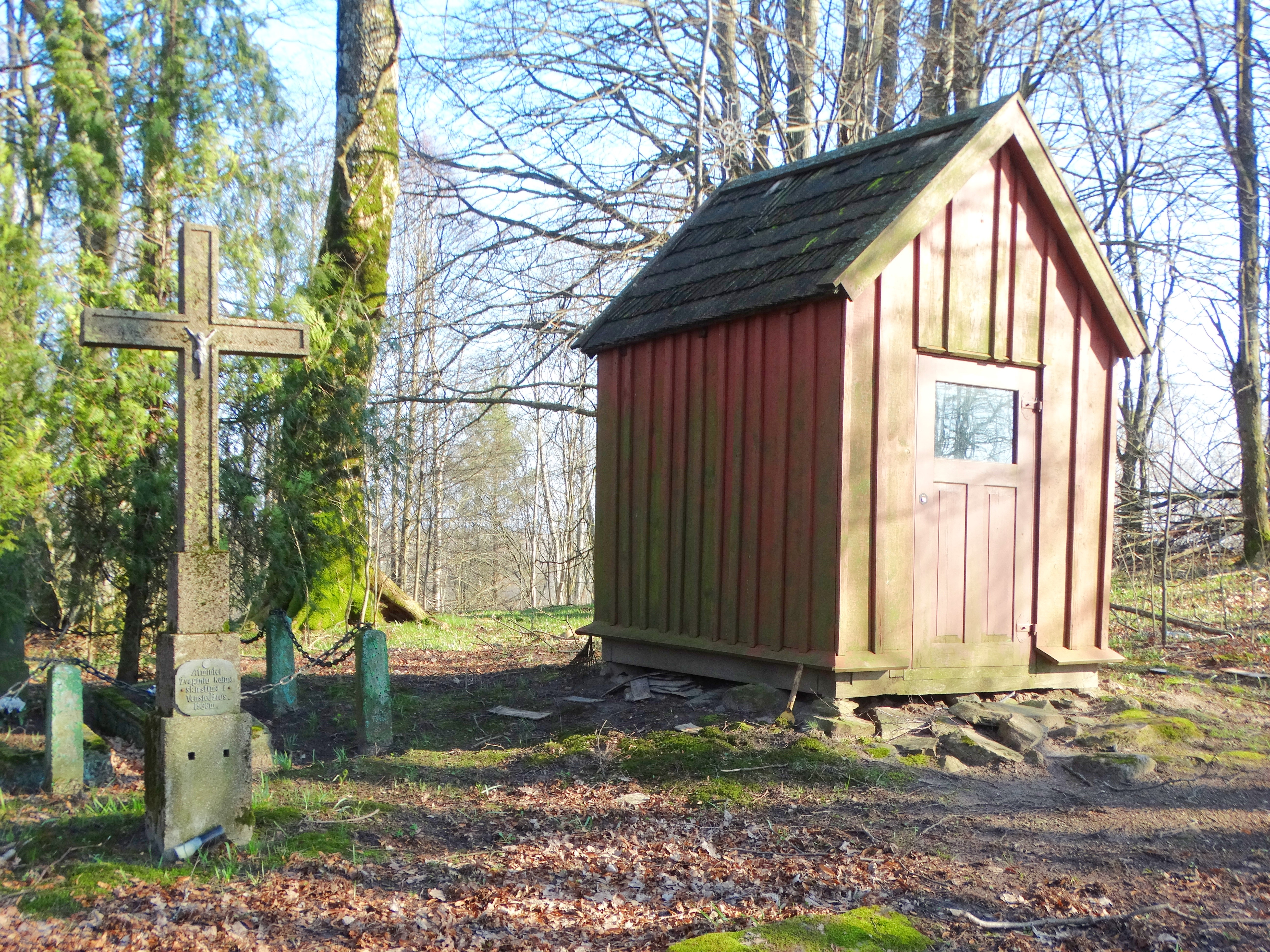 Žvaginiai hillfort. chapel, Klaipėda District, Lithuania